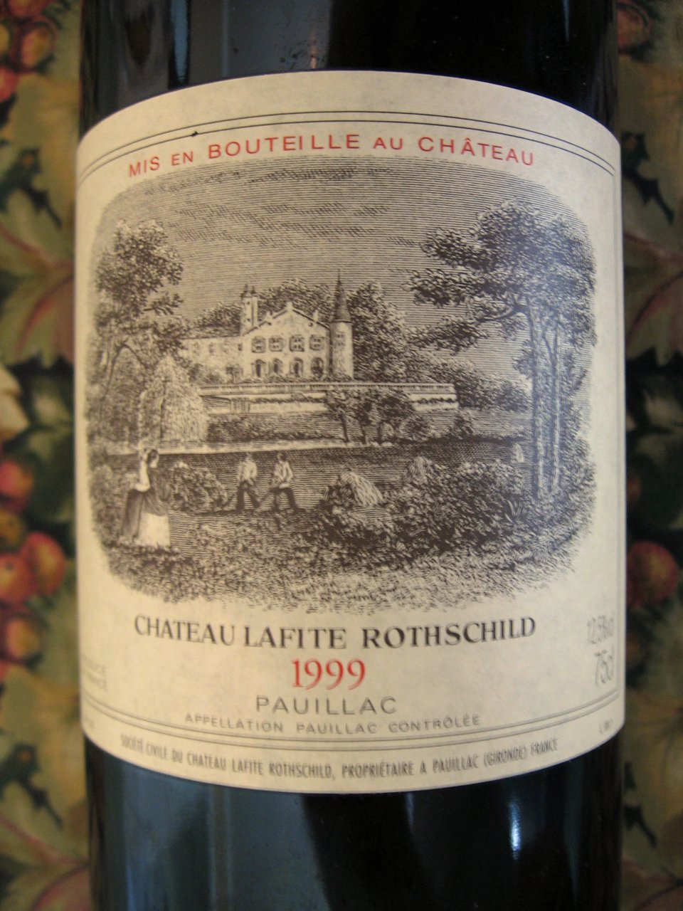 Chateau Lafite Rothschild Label for the 1999 vintage